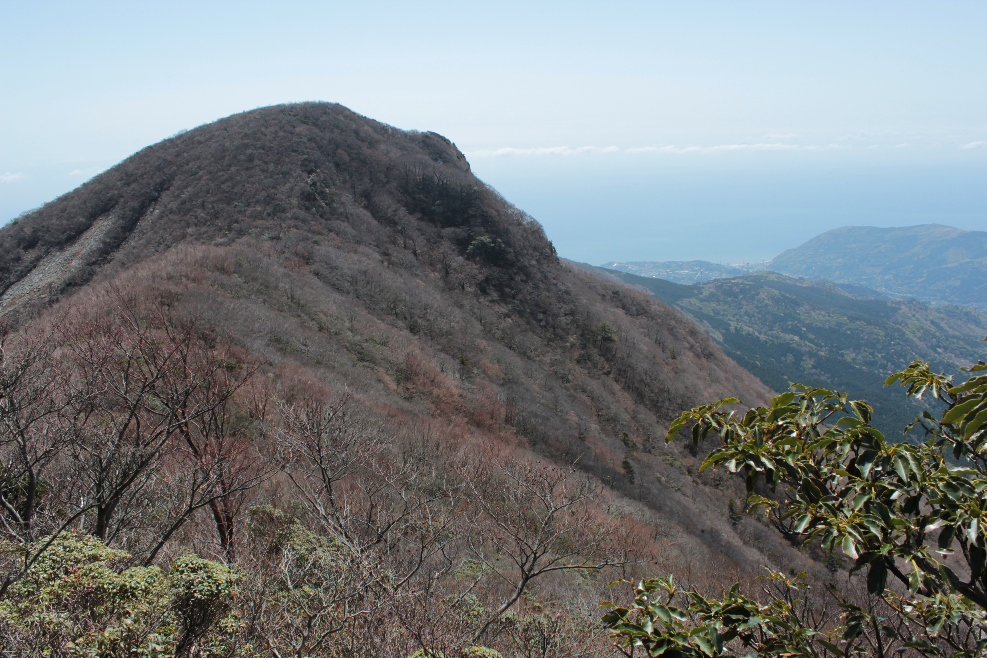 Mount Amagi's Banjirodake peak as seen from the west in Izu Peninsula, Shizuoka Prefecture, Japan.